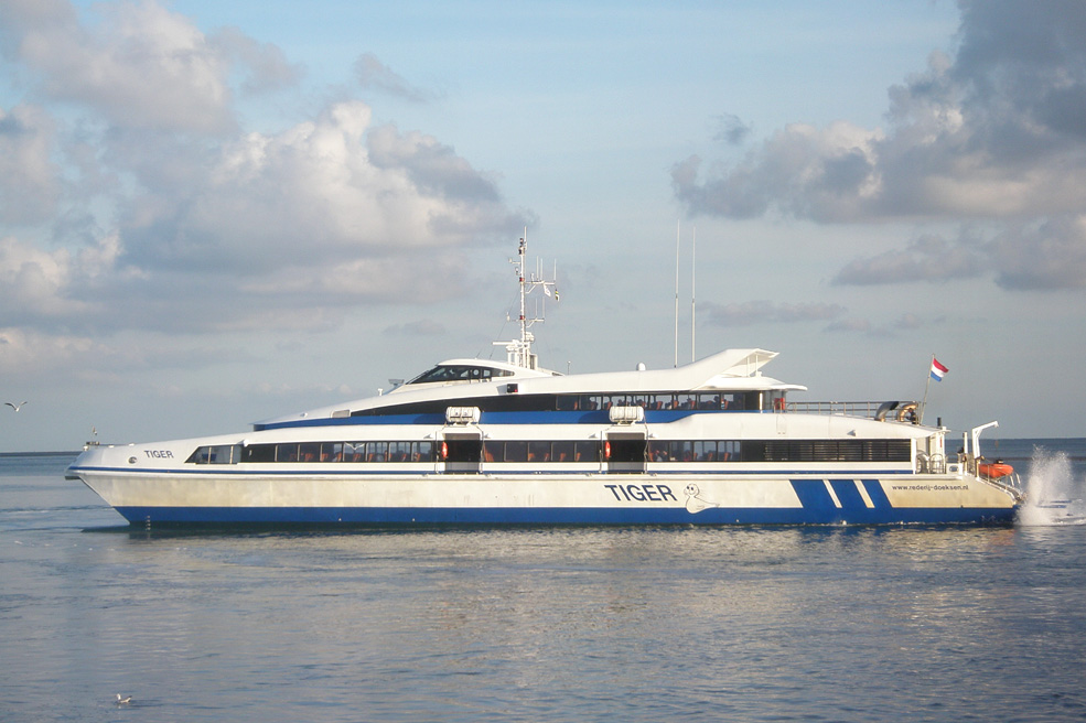 MS Tiger (Rederij Doeksen, The Netherlands)